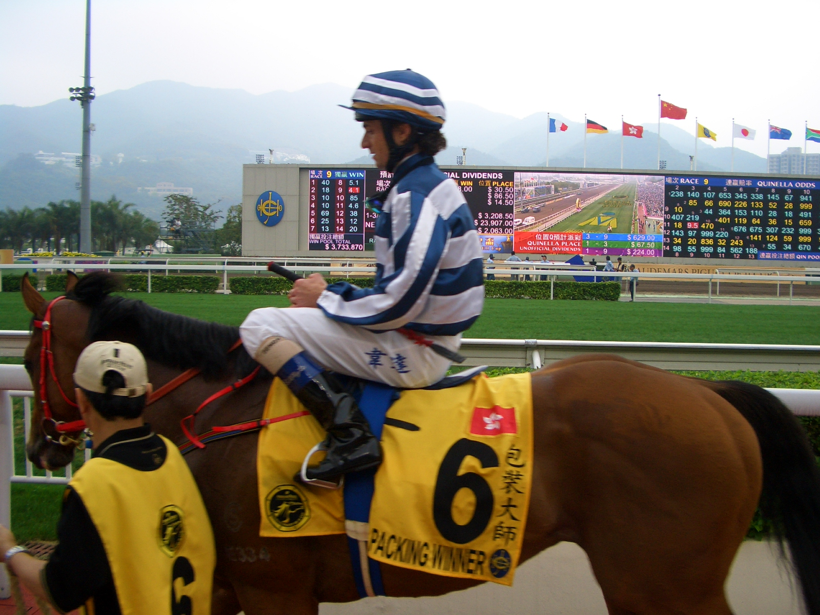 Packing Winner on 2008 APQEII Cup